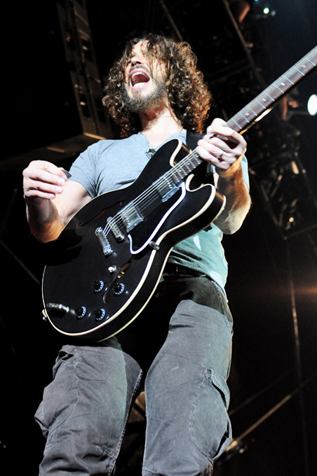 Big Day Out Festival 2012. Do Not Publish.